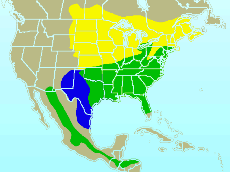 Approximate range/distribution map of the Eastern Bluebird (Sialia sialis). In keeping with WikiProject: Birds guidelines, yellow indicates the summer-only range, blue indicates the winter-only range, and green indicates the year-round range of the species.